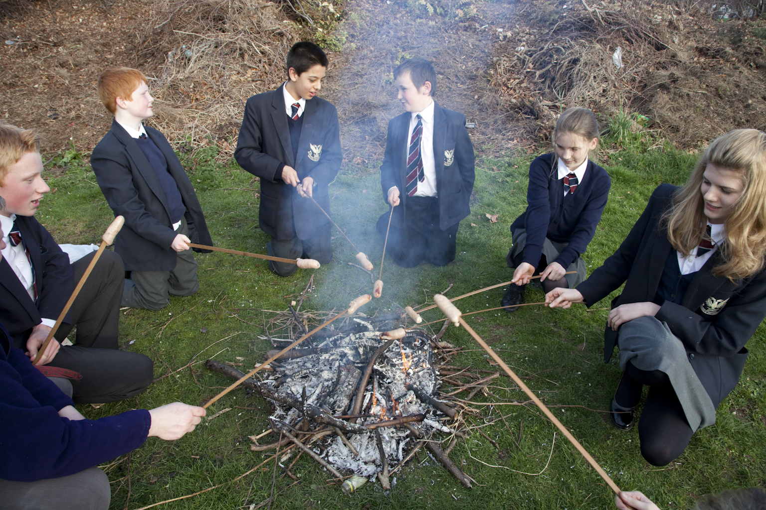 Bush Craft Ruthin School, Mold Road, Ruthin, Denbighshire, Wales UK +441824 702543